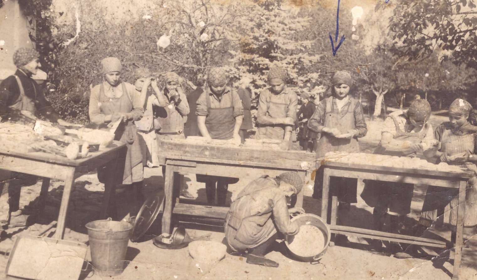 Landwirtschaftsschule in Orchanie